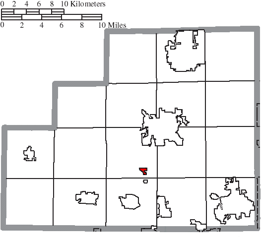 Map of the municipal and township boundaries of Medina County, Ohio, United States, as of the 2000 census, with the location of the village of Chippewa Lake highlighted. Township borders are shown only in unincorporated areas in order to differentiate incorporated and unincorporated areas more clearly.